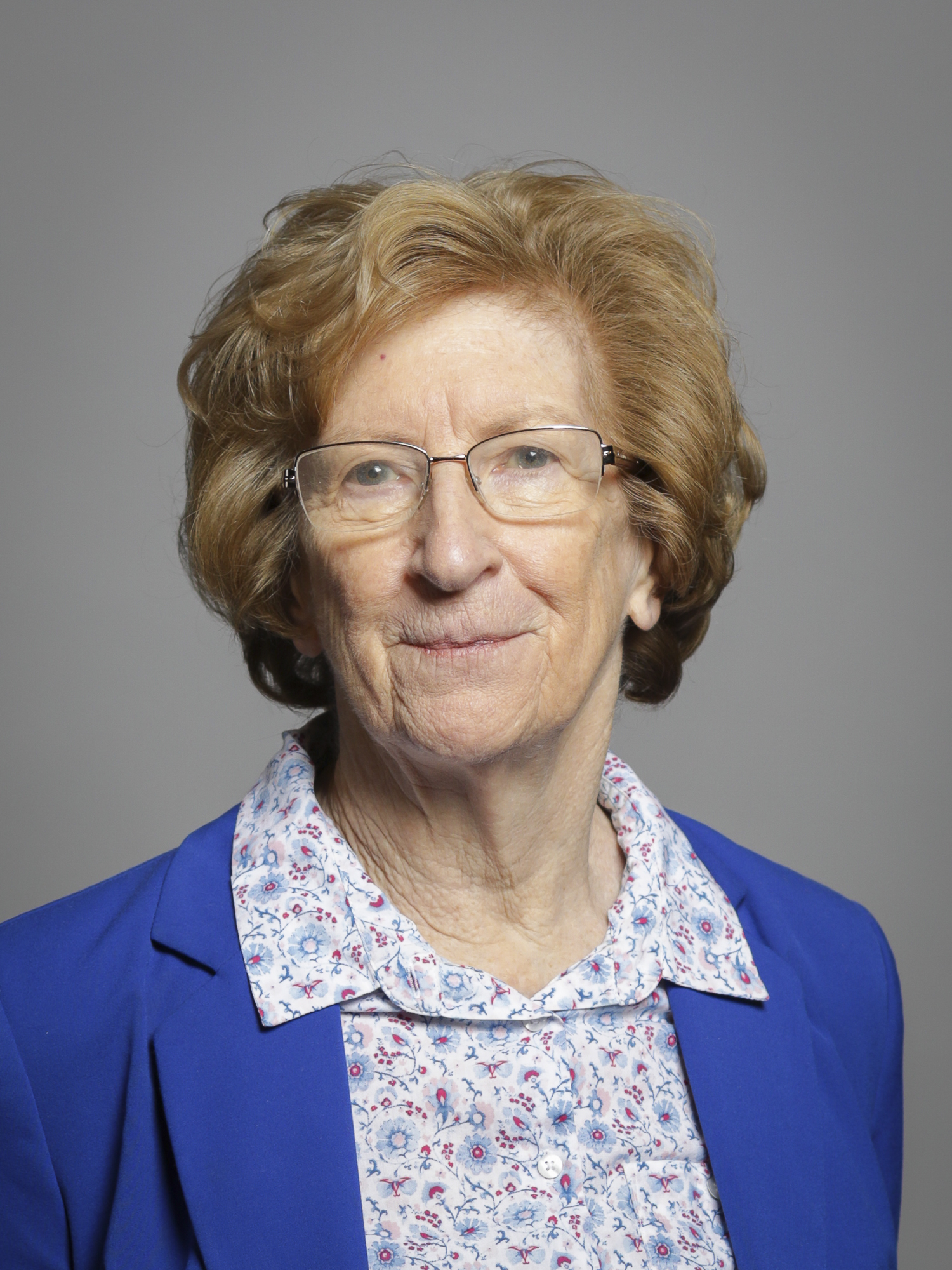 Official portrait of Baroness Meacher 3×4 portrait of Baroness Meacher